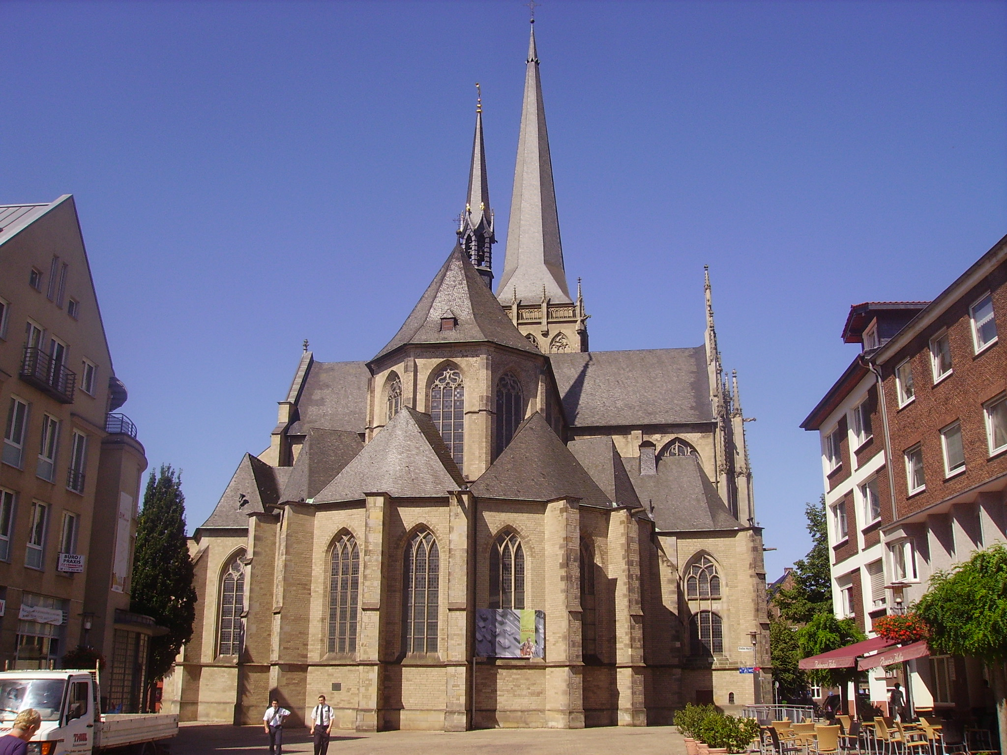 Choir of the Willibrordi Minster, Wesel